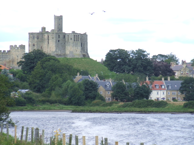 River Coquet with Warkworth and the Castle in the background